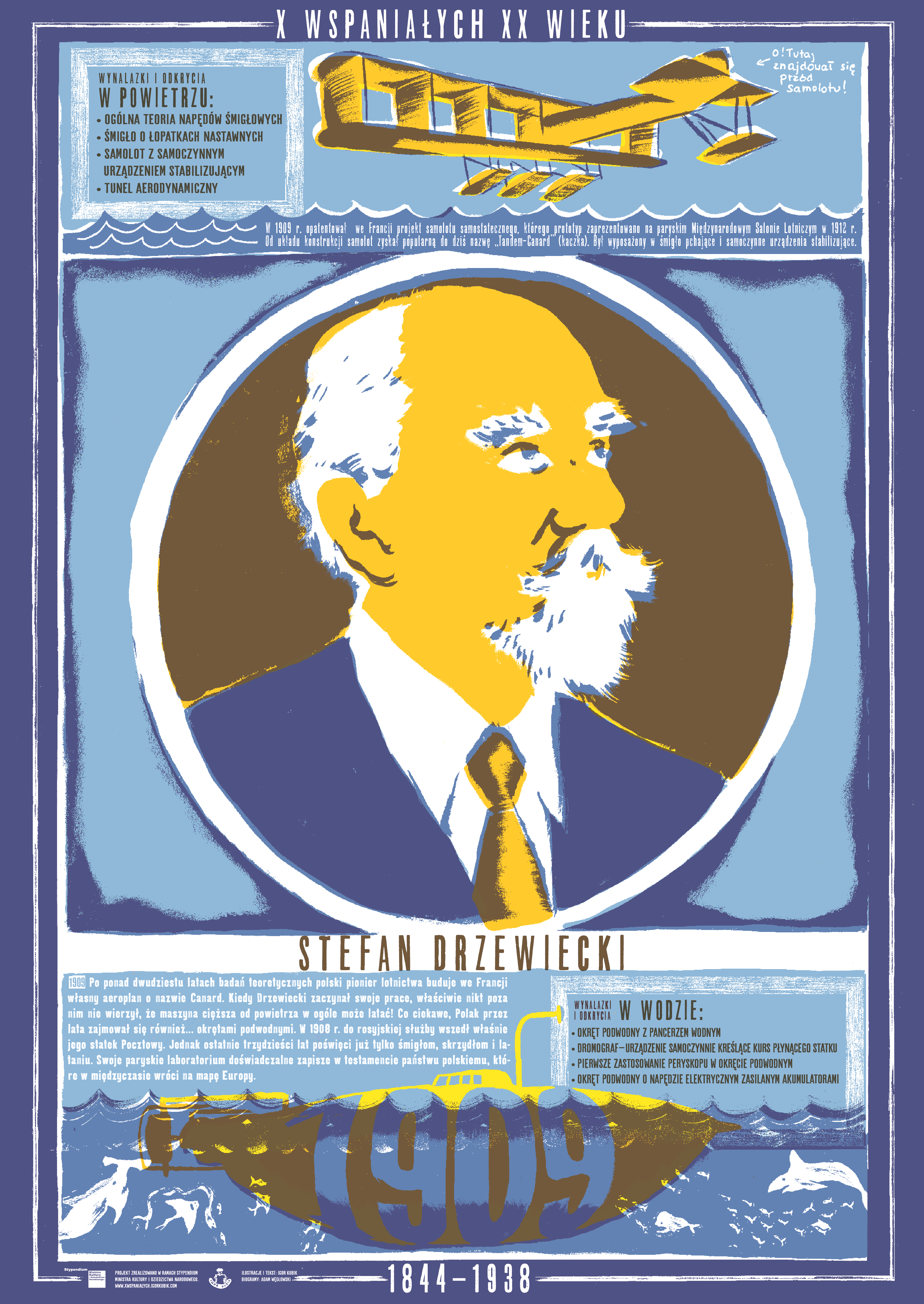 Stefan Drzewiecki polish inventor